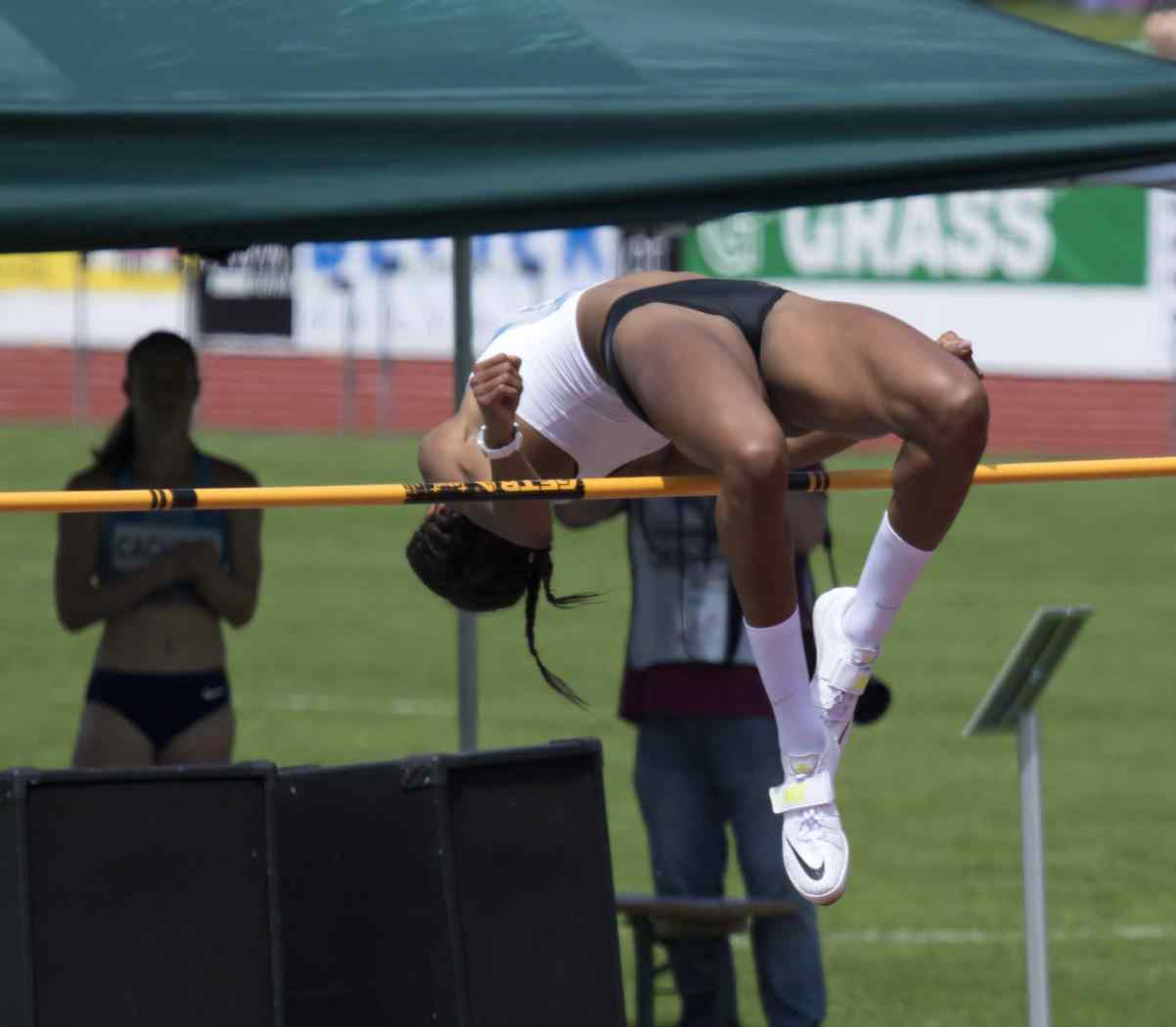 2018 Hypo-Meeting Götzis